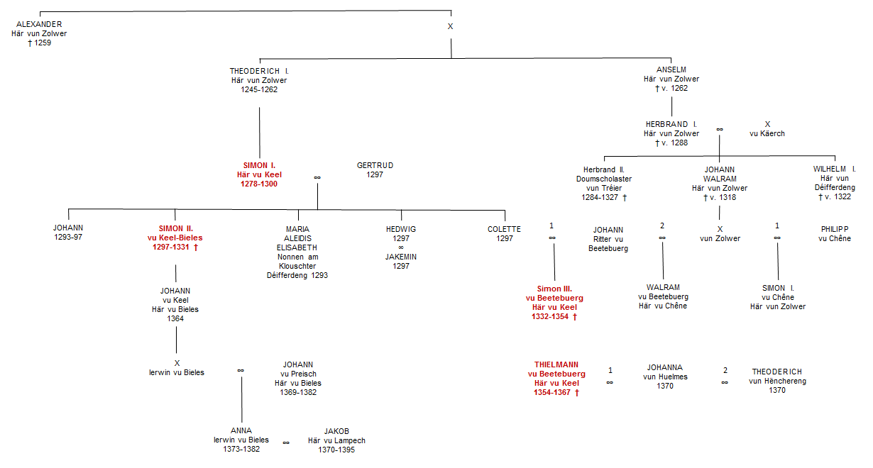 Genealogy of the House of Kayl.